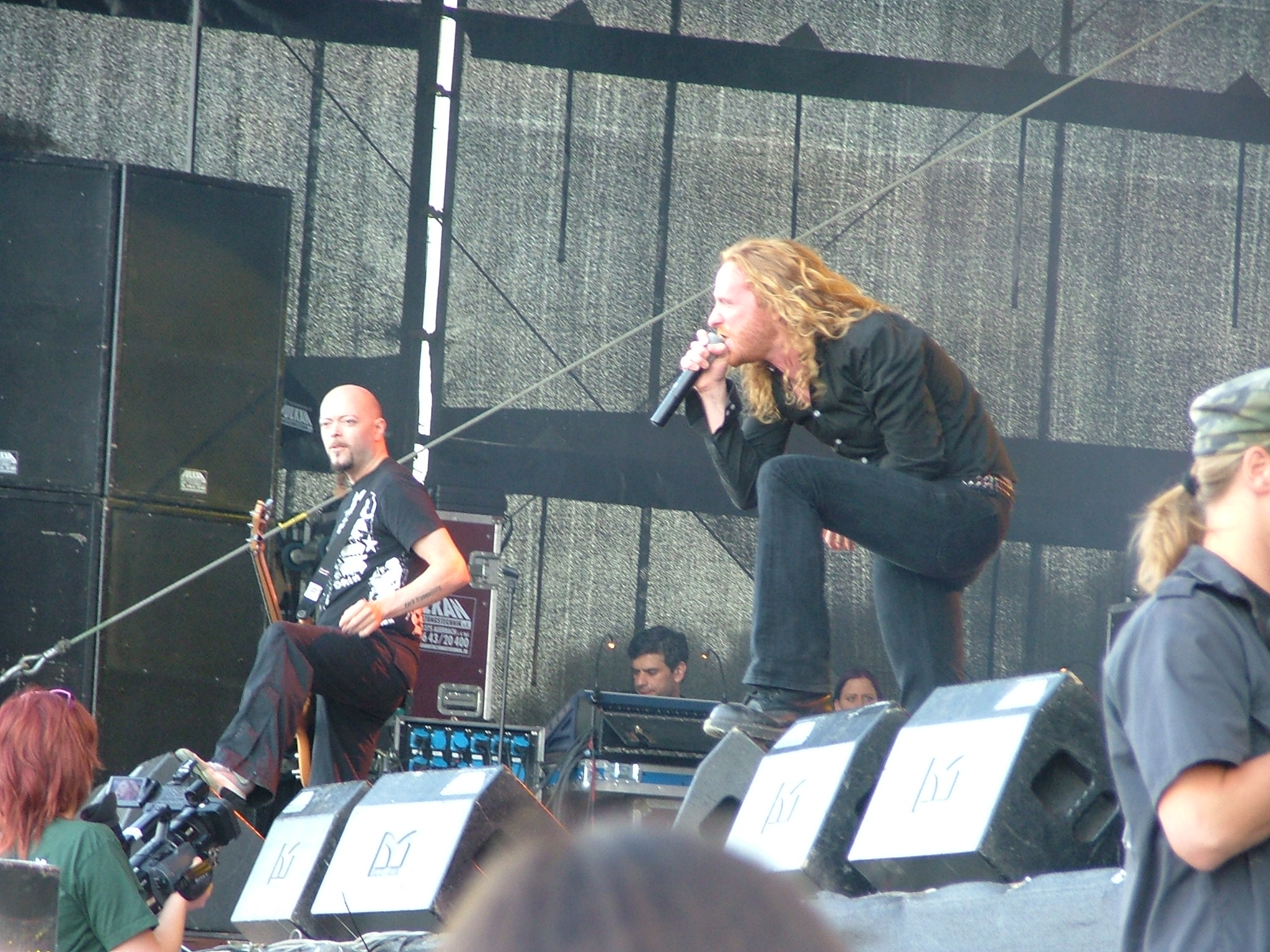 Swedish melodic death metal band Dark Tranquillity at the Summer Breeze in Dinkelsbühl